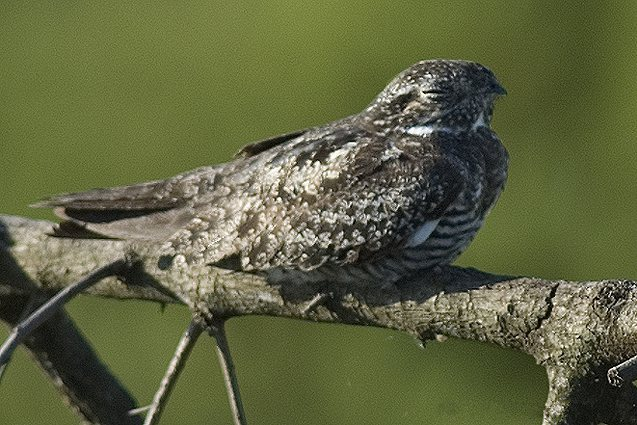 Common Nighthawk (Chordeiles minor -- Family: Caprimulgidae). Along CR835 south of Clewiston, Hendry Co., Florida 07/14/2007